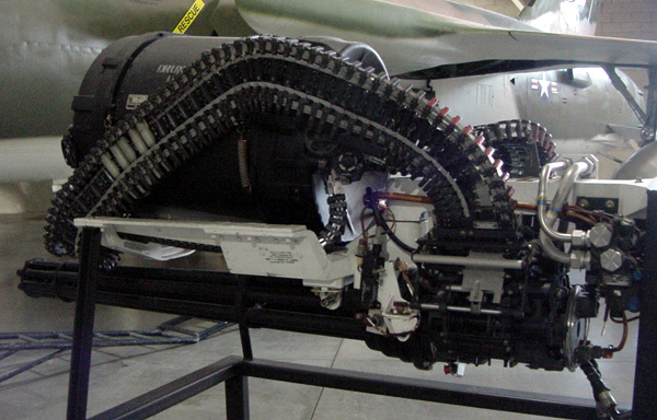 The 20mm M61A1 Vulcan built by General Electric was a standard aircraft gun used by the USAF. Based on the premise of the multi-barrel gun first generated by Dr. Gatlin in the nineteenth century, the Vulcan was equipped with a rotary action and was tied into the aircraft's hydraulic or electrical system. The Vulcan fired about 6,000 rounds per minute and had a high muzzle velocity of 1,036 meters per second. Initially the ammunition was fed into the cannon on a belt but the reliability was low and there were problems with the link disposal. So GE designed the Vulcan cannon with a linkless feed system. The ammunition drum could hold around 1,000 rounds and was attached to the cannon by an ammunition conveyor belt.